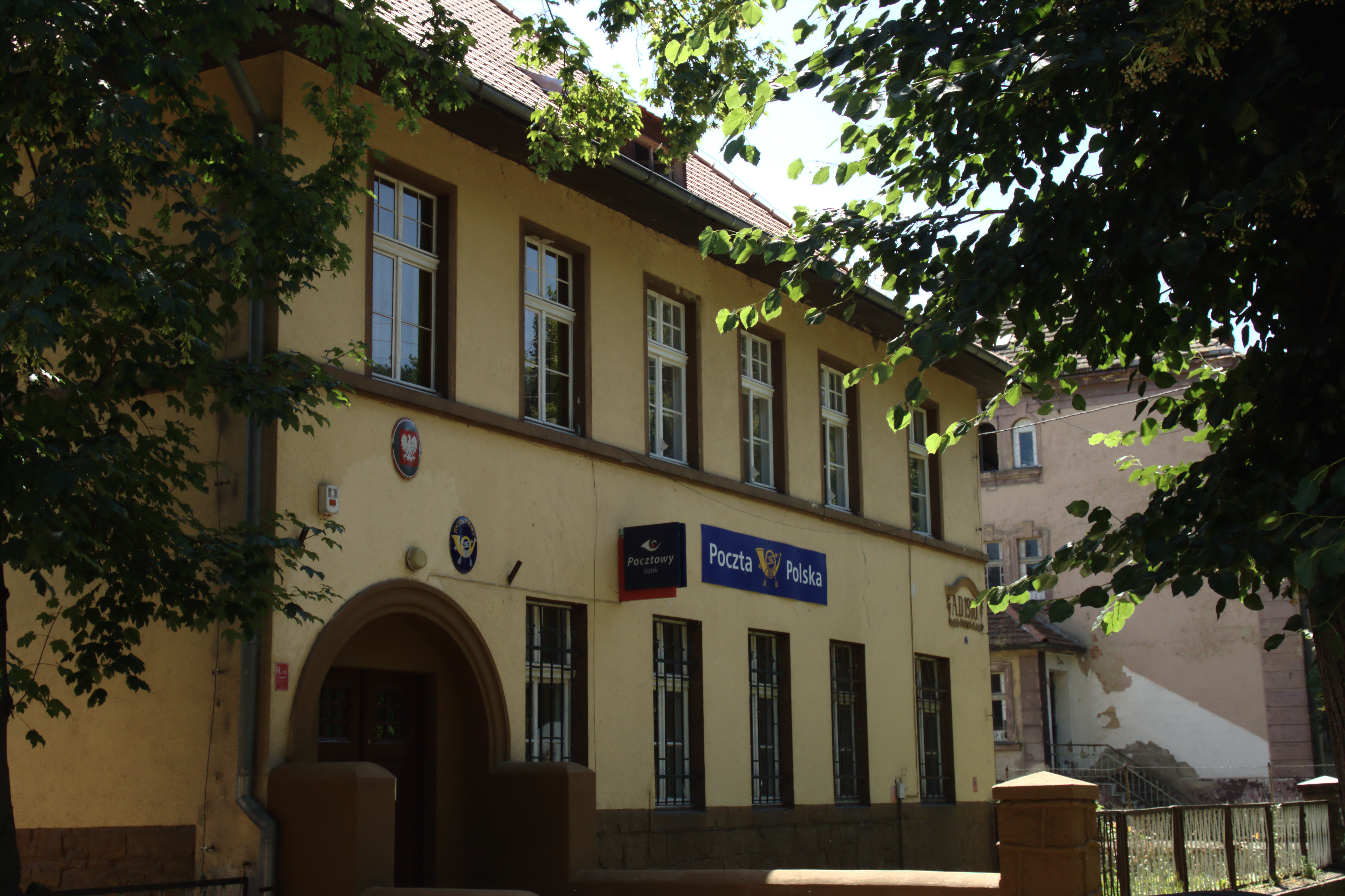 Post office building in Niemcza, Poland